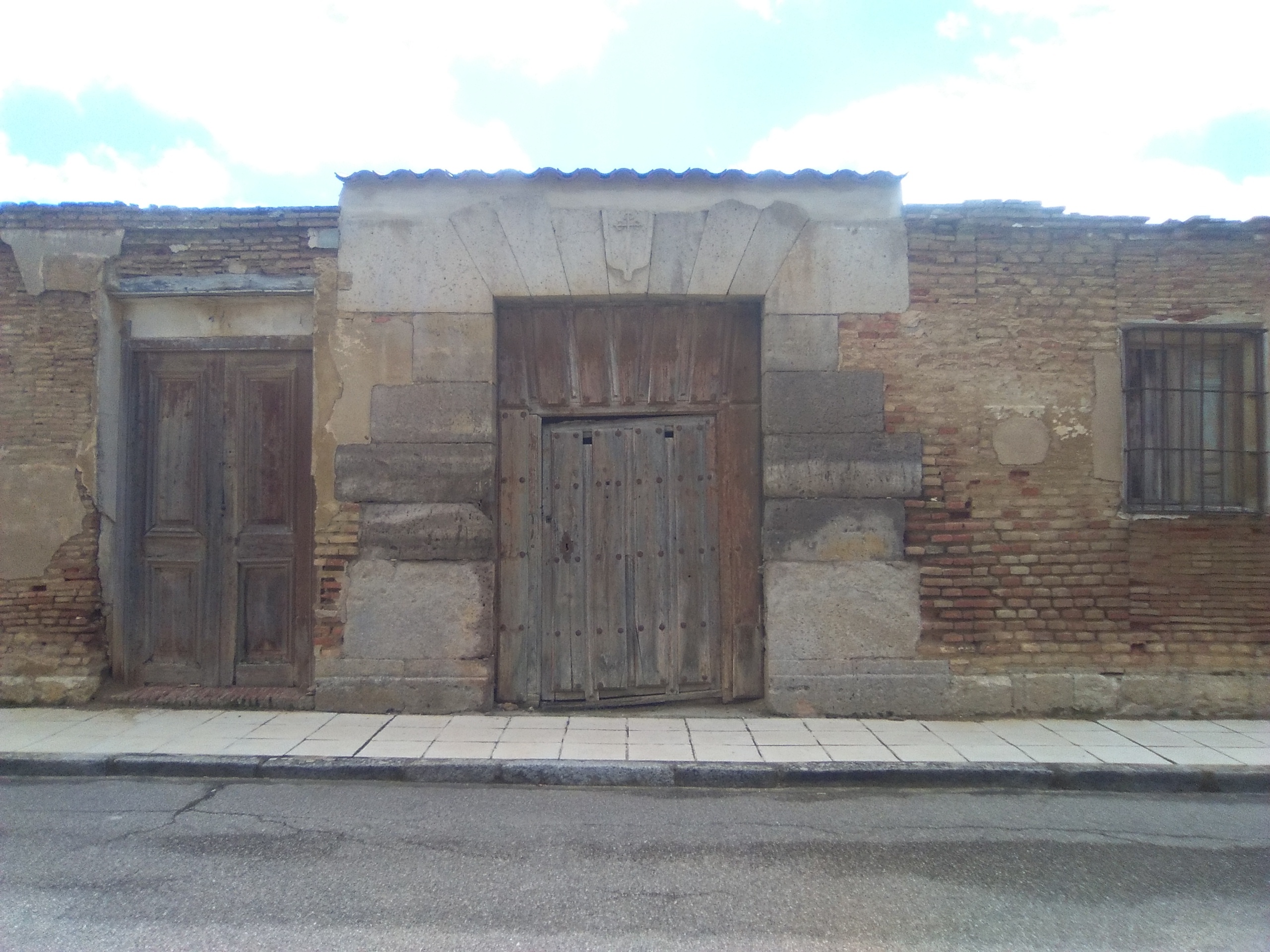 Hospital de Villalcázar de Sirga (Orden de Santiago)